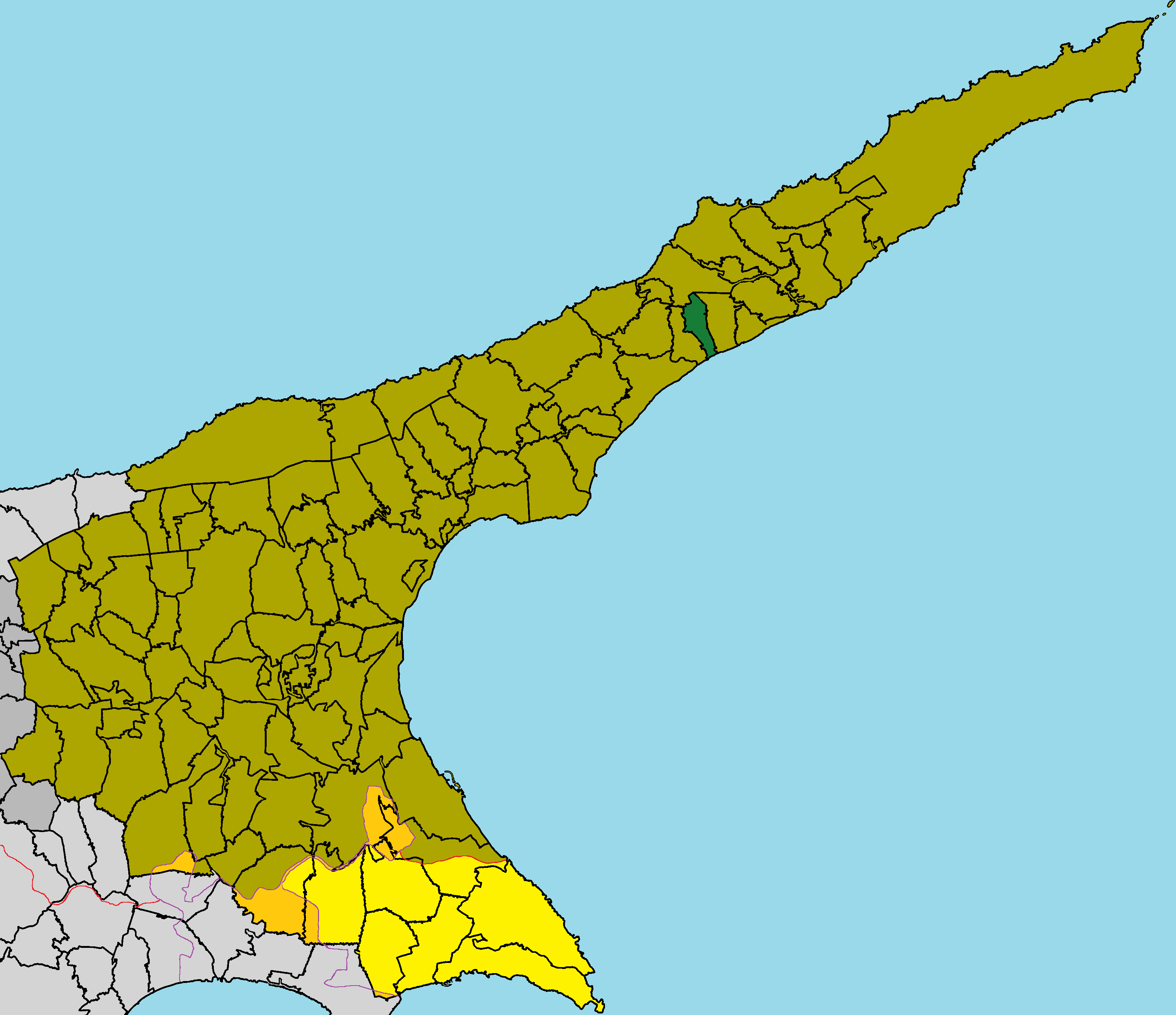 Lythragkomi in Famagusta District (de jure).